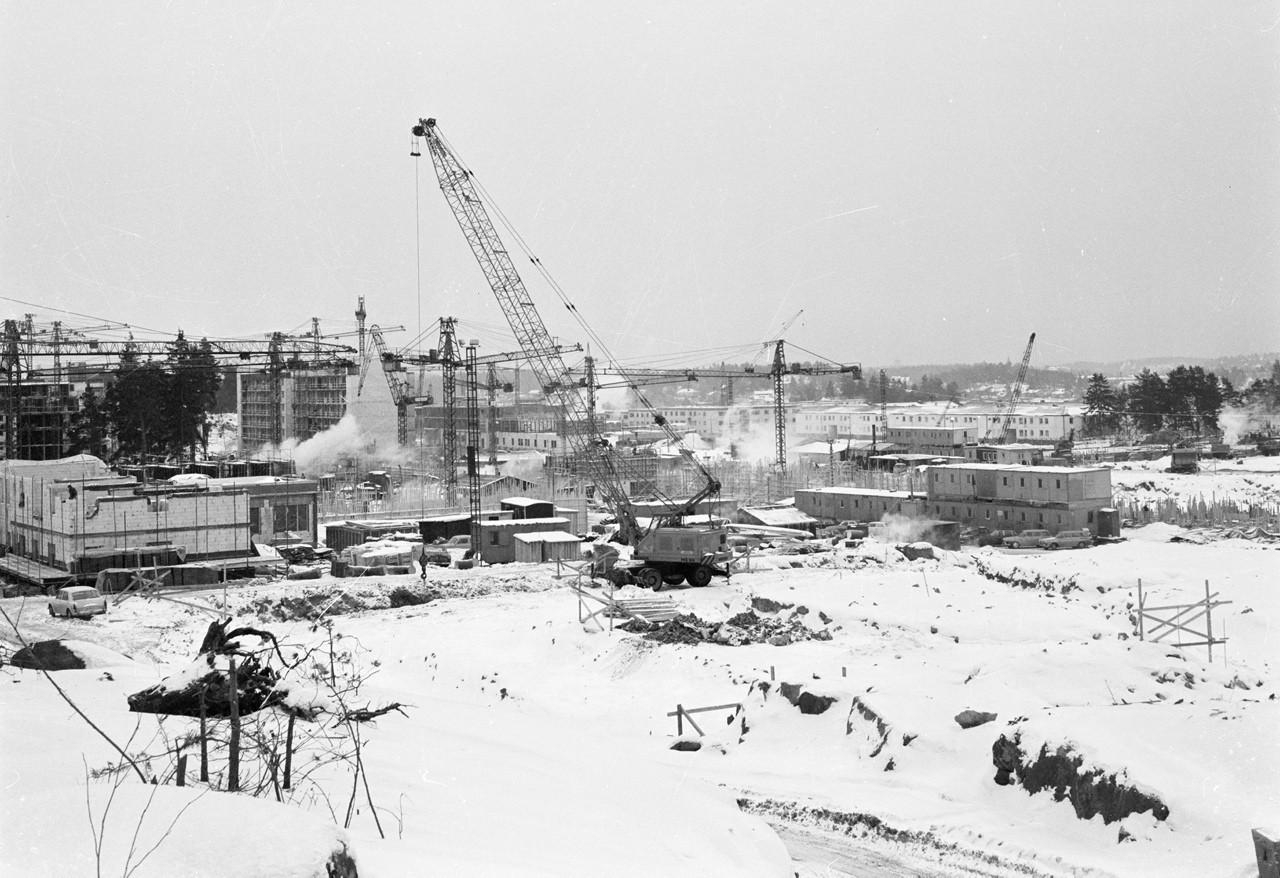 FOTOGRAFITensta centrum byggs. 1969-1969FOTOGRAF: Ferenius, Jonas.BILDNUMMER:Stadsmuseet i Stockholm